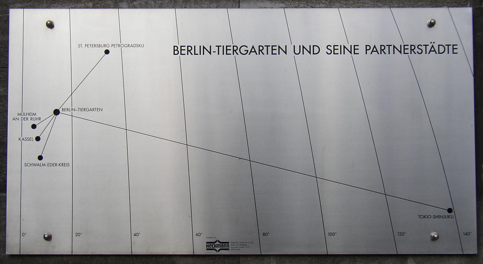 Sign denoting twin town of Berlin-Tiergarten, in Berlin-Moabit, Germany